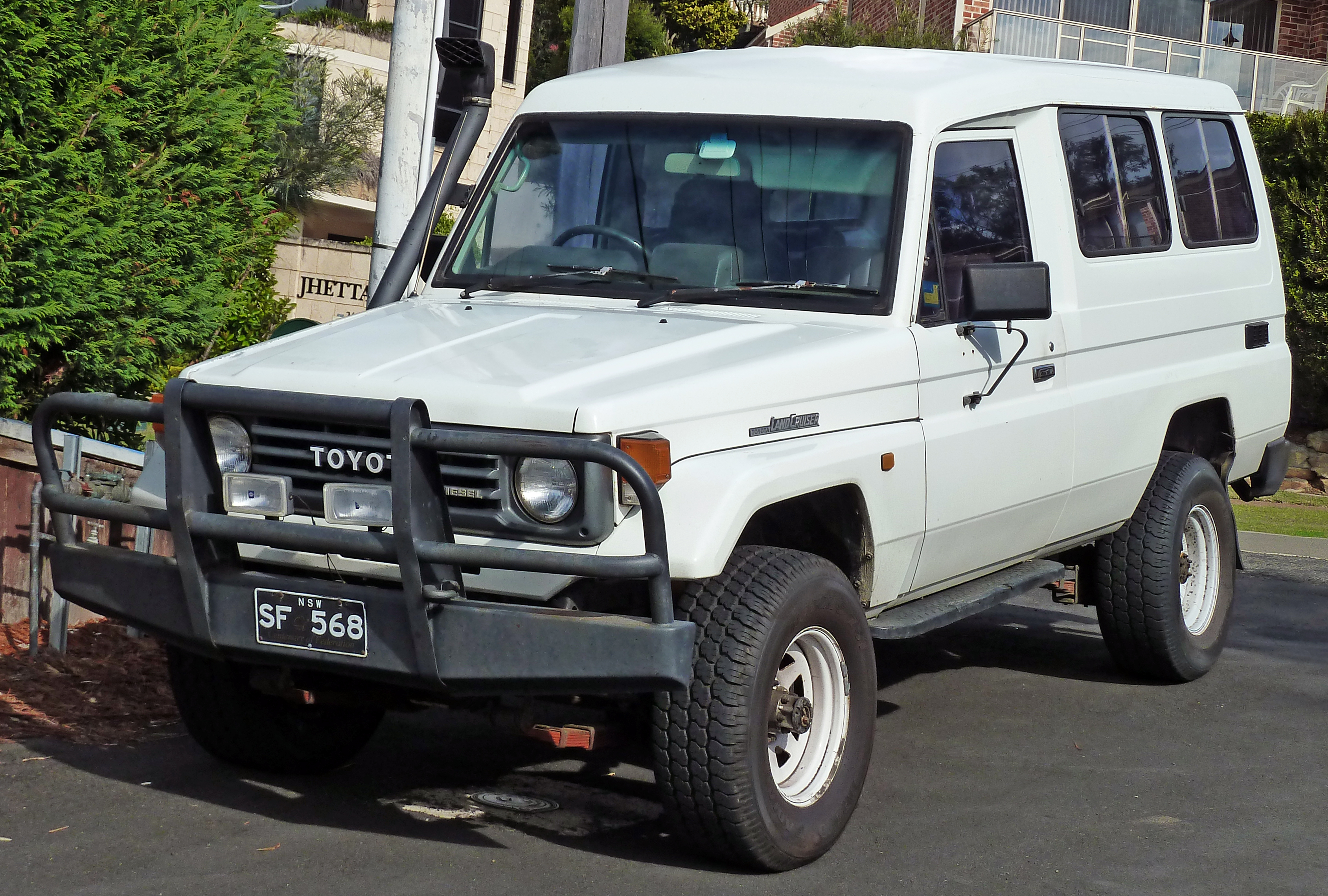 1991 Toyota Land Cruiser (HZJ75RV) 3-door wagon. Photographed in Sylvania, New South Wales, Australia.